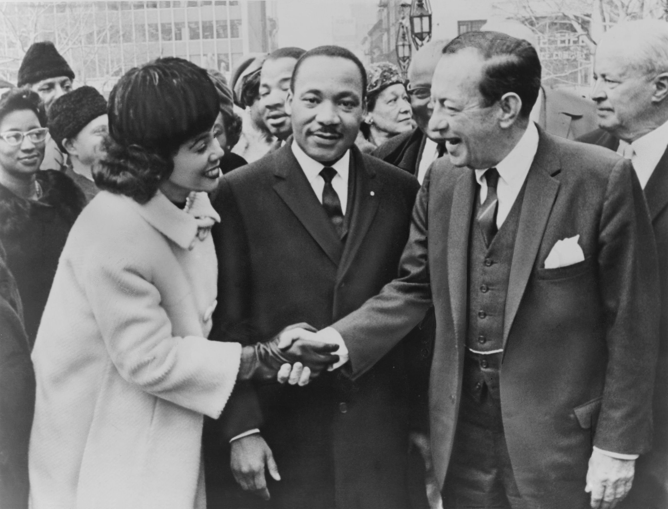 Mayor Wagner greets Dr. & Mrs. Martin Luther King, Jr. at City Hall / World Telegram & Sun photo by Phil Stanziola. Coretta Scott King shakes hands with New York City Mayor Robert Wagner as Dr. Martin Luther King, Jr. stands between them.